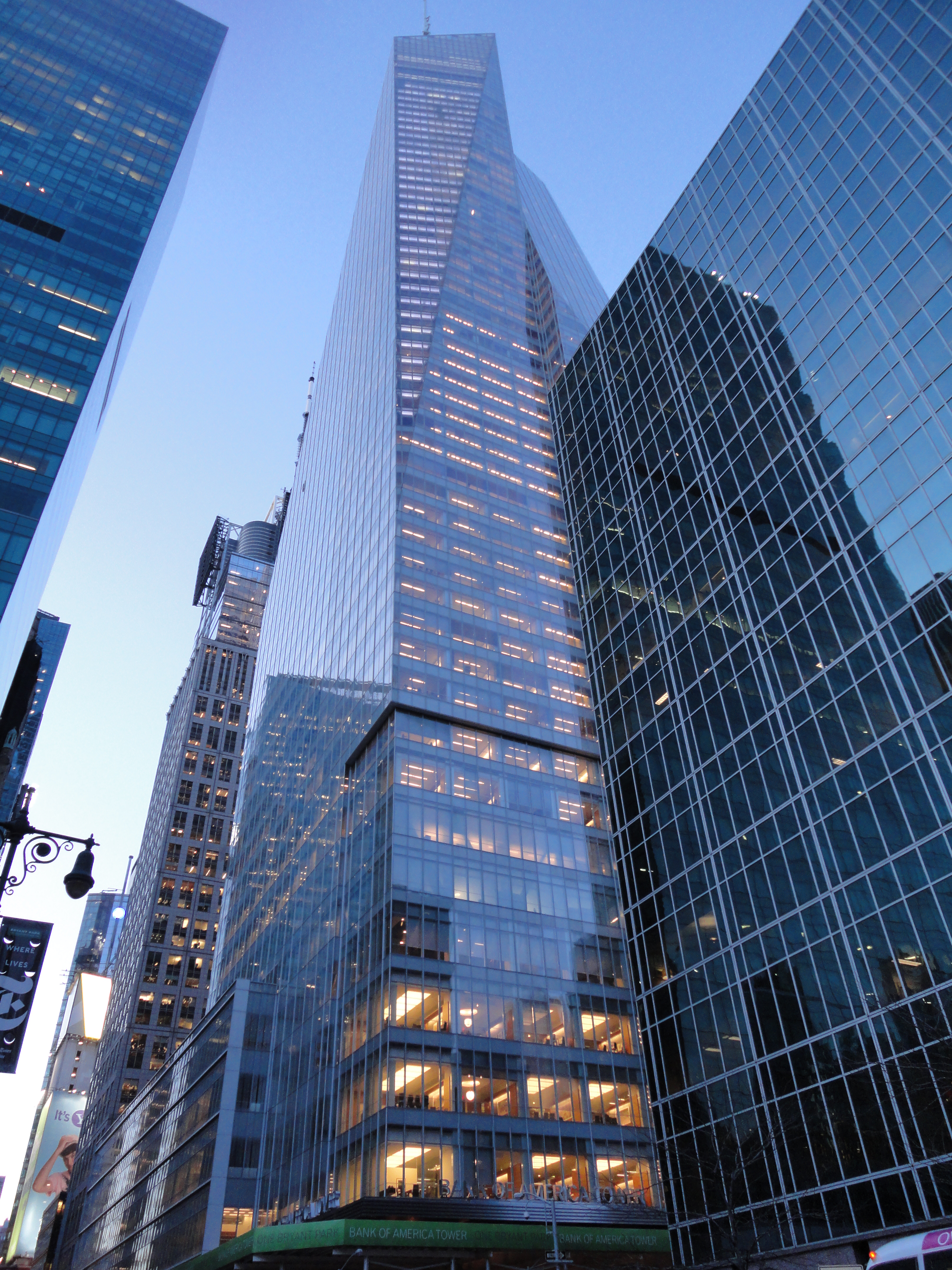 Bank of America Tower